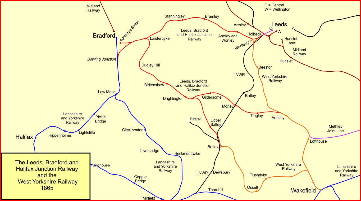 System map of the Leeds, Bradford and Halifax Junction Railway, in Yorkshire, England, in 1865